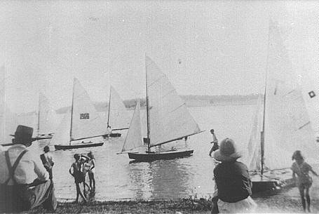 Vaucluse junior sailing dinghies, Speers Point, New South Wales